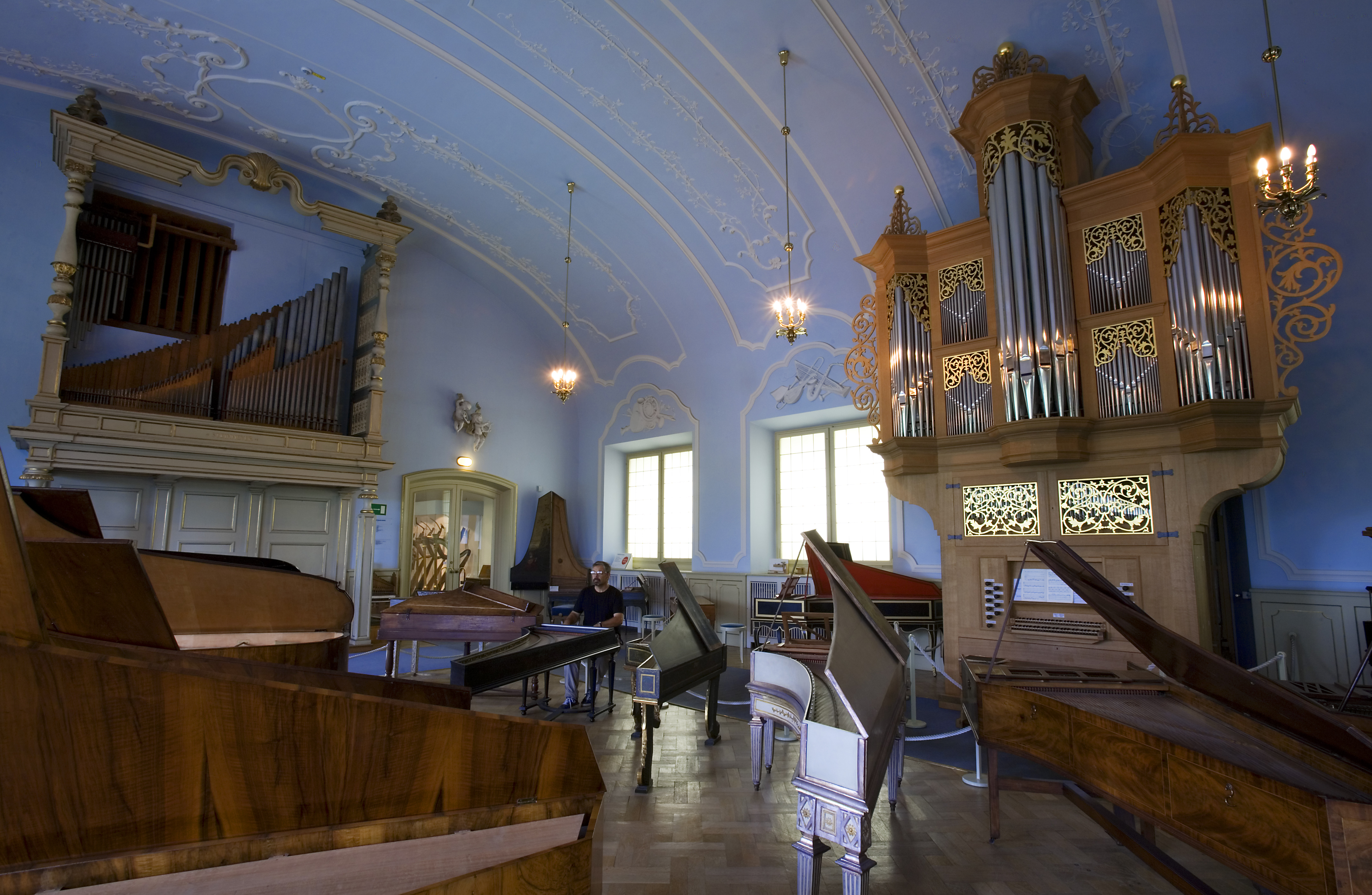 History of keyboard musical instruments, pianos and organs, in exhibition in the Deutsches Museum, Munich, Germany